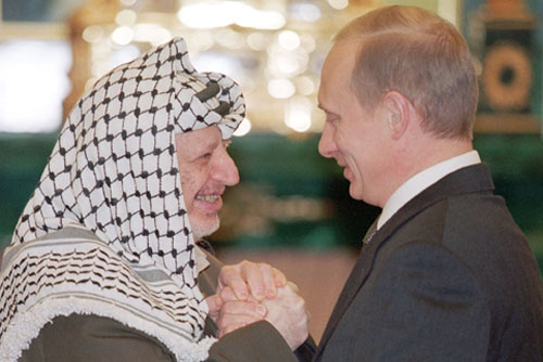 THE KREMLIN, MOSCOW. President Vladimir Putin with Palestinian National Authority leader Yasser Arafat.